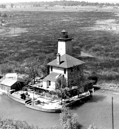 Saginaw River Rear Range Light in Bay County, Michigan, USA